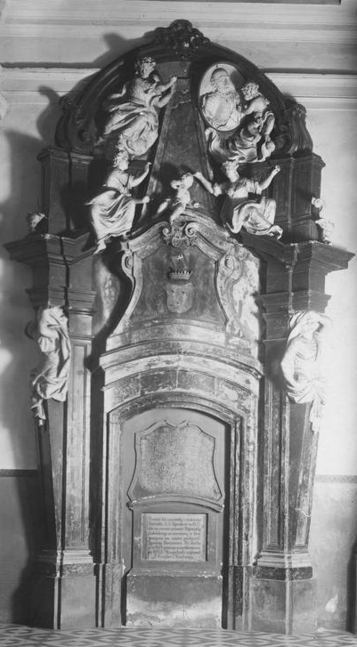 Jan Tarło cenotaph in the Jesuit's Church in Warsaw.